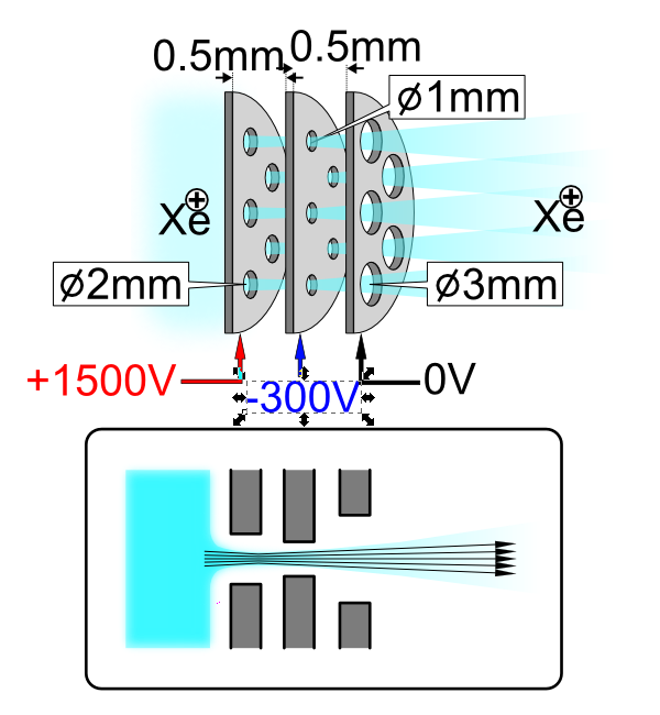 Schematic of ion engine mu10 for Hayabusa 4